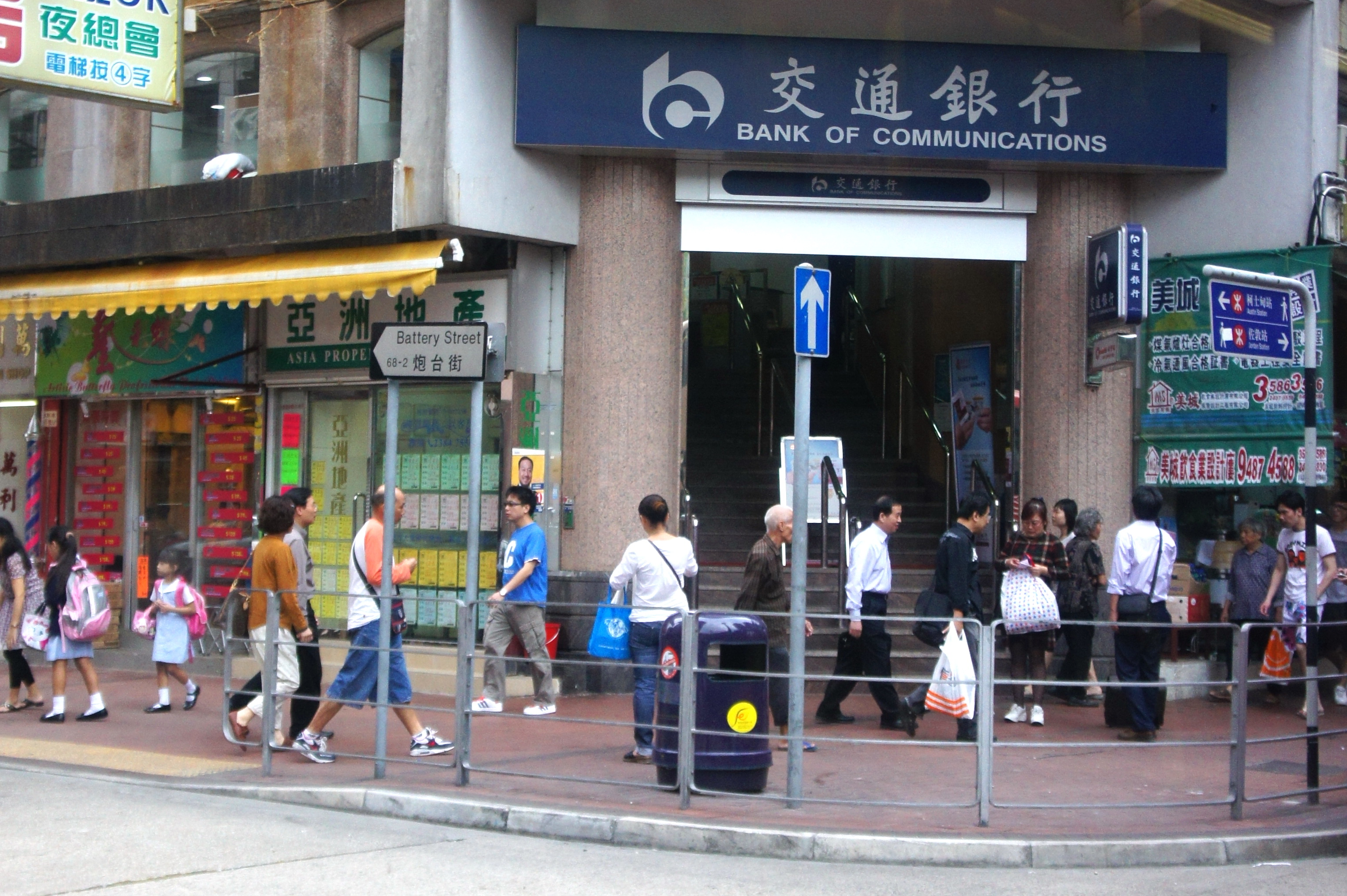 The intersection of Battery Street and Jordan Road, Jordan, Kowloon, Hong Kong.